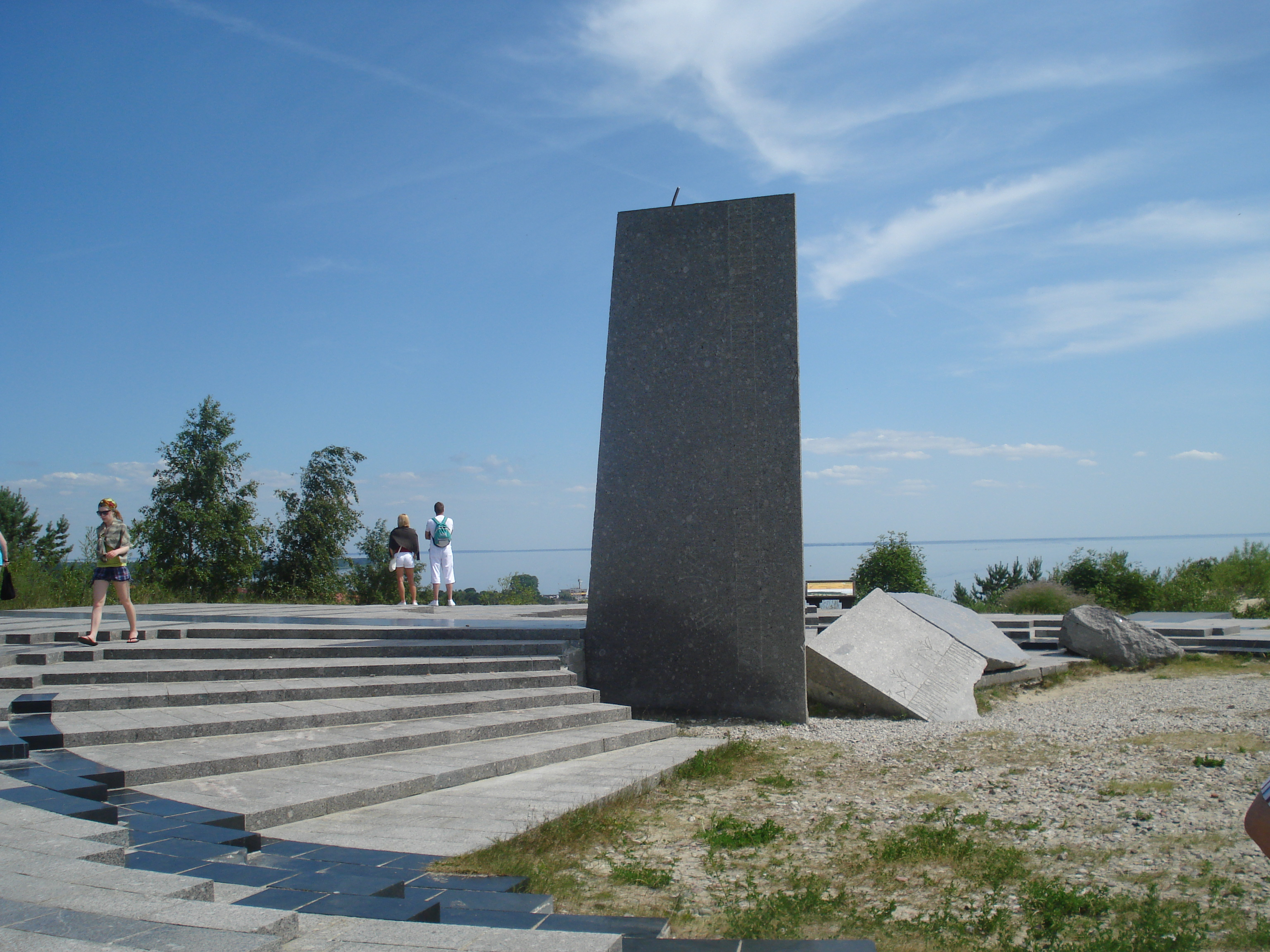 Sundial Calendar in Nida, Lithuania. In 1995 during hurricane the part of the obelisk got splintered off